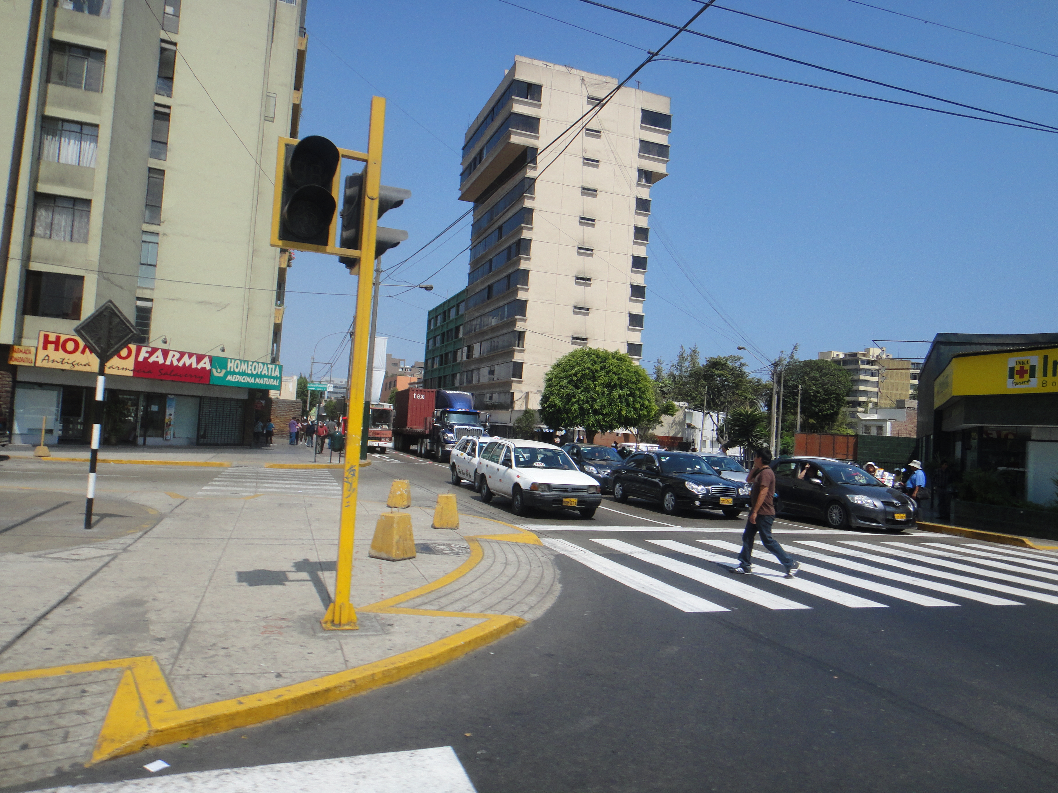 Corner between Du Petit Thouars Ave and Javier Prado Ave in San Isidro District, Lima-Peru.